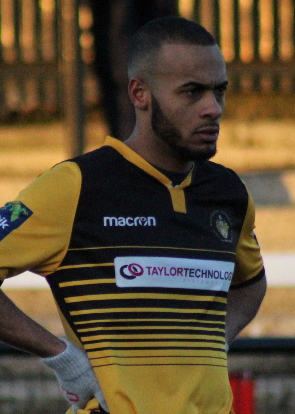 Jerome Federico in action for Cray Wanderers during a 2–2 draw against Walton Casuals in the Isthmian League South Division on Sunday 7 January 2018 at Hayles Lane, Bromley, England.